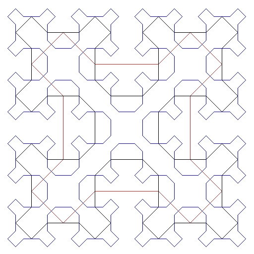 Sierpinski Curves (fractals) of orders 1 and 3. Drawn by a Java program I did myself.